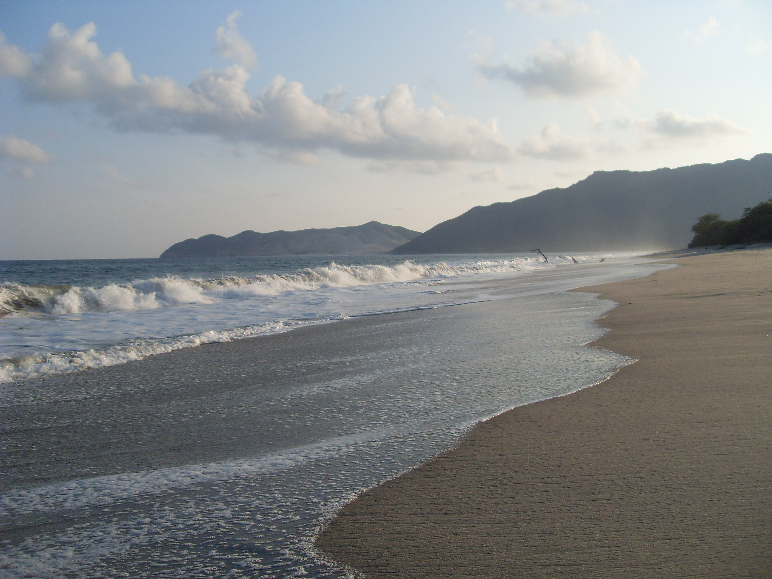 The Pacific Ocean